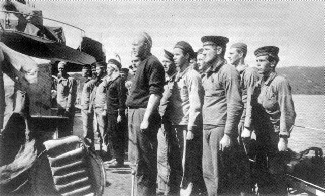 The crew of swedish destroyer HMS Romulus lined up for a big cleaning of the ship i Kirkwall.